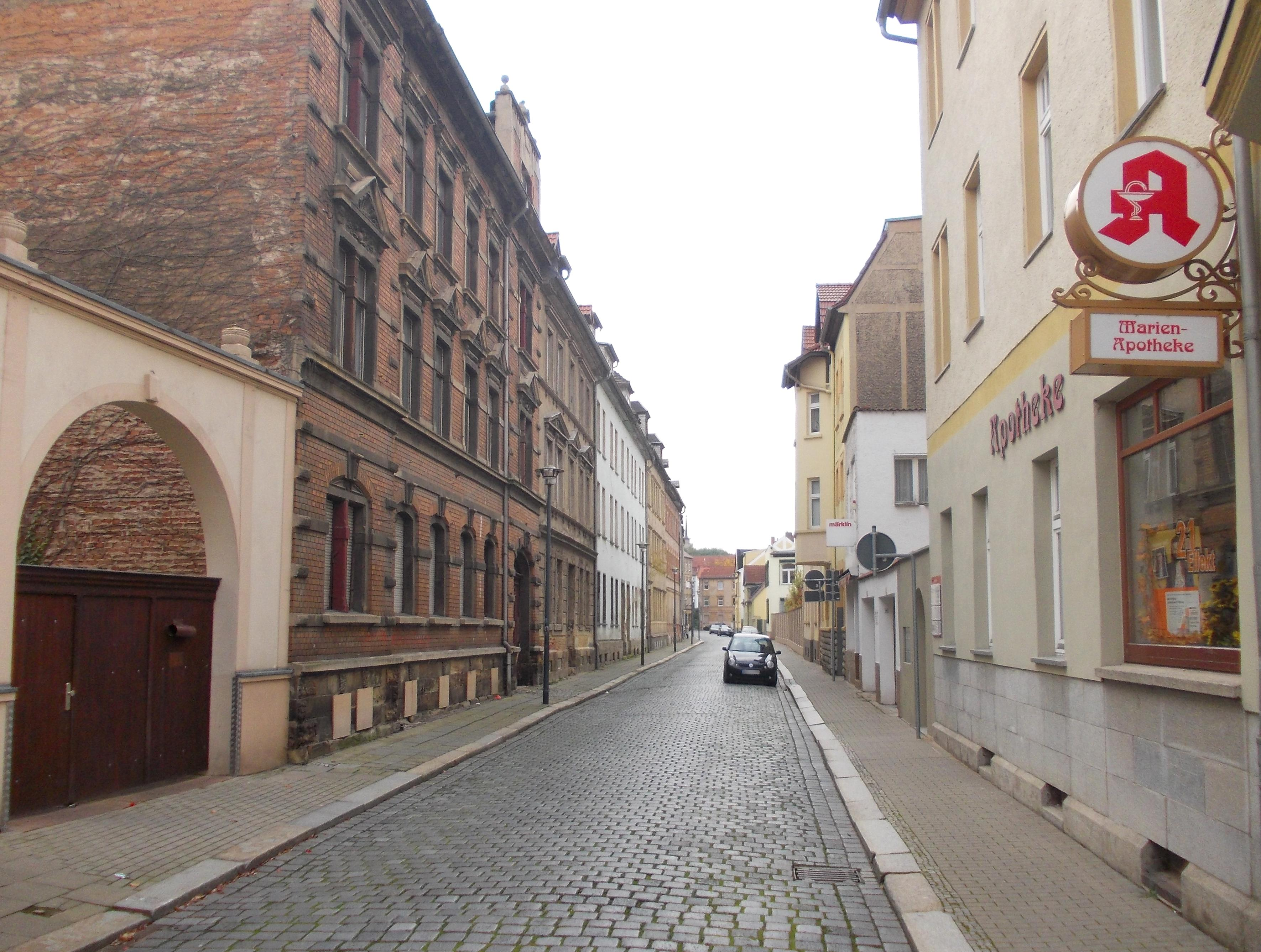 Rudolf-Götze-Strasse in Weissenfels (district: Burgenlandkreis, Saxony-Anhalt)